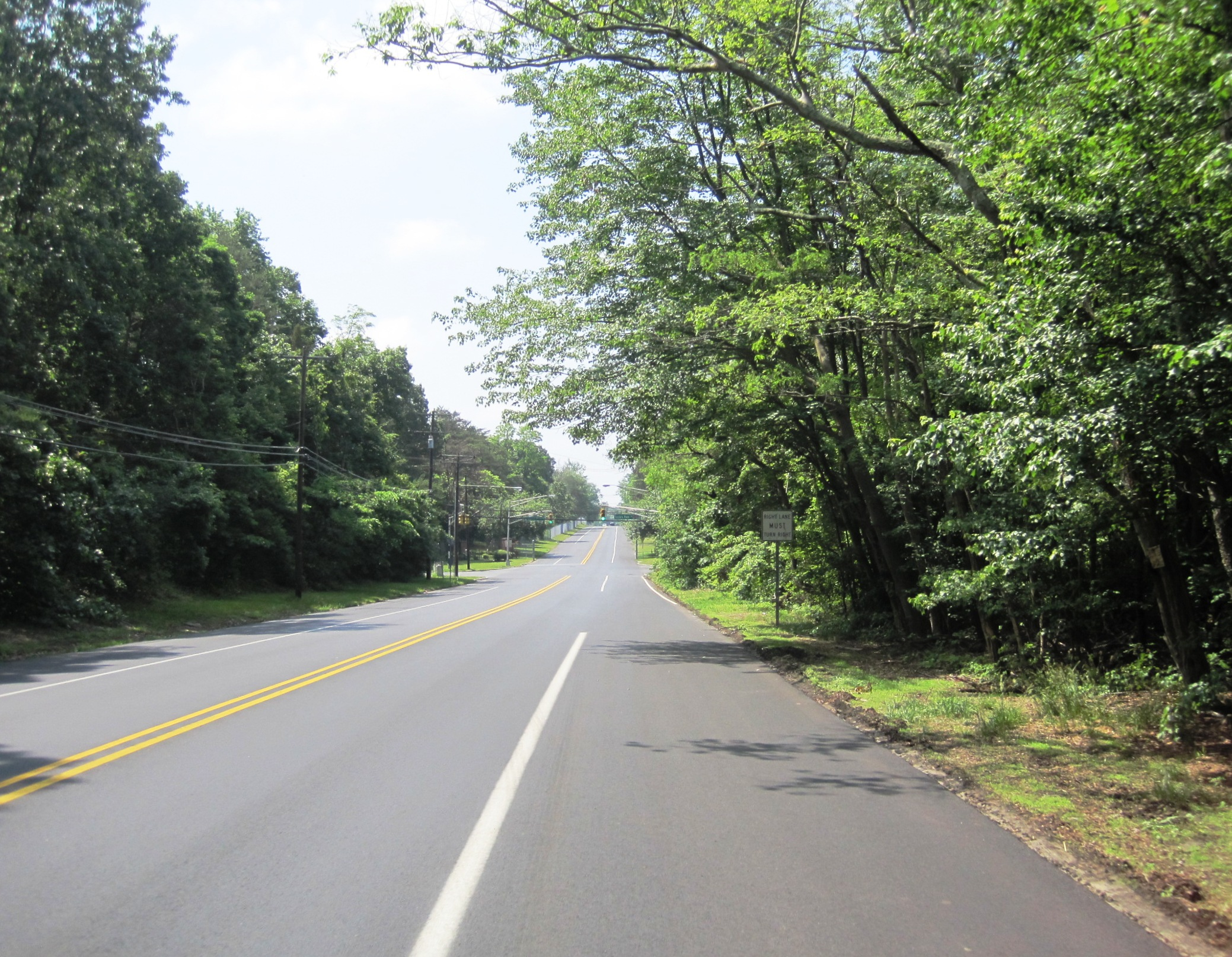 Photograph showing southbound New Jersey Route 68 (two-lane undivided segment) approaching Saylors Pond Road (County Route 670) in Springfield Township, Burlington County, New Jersey.